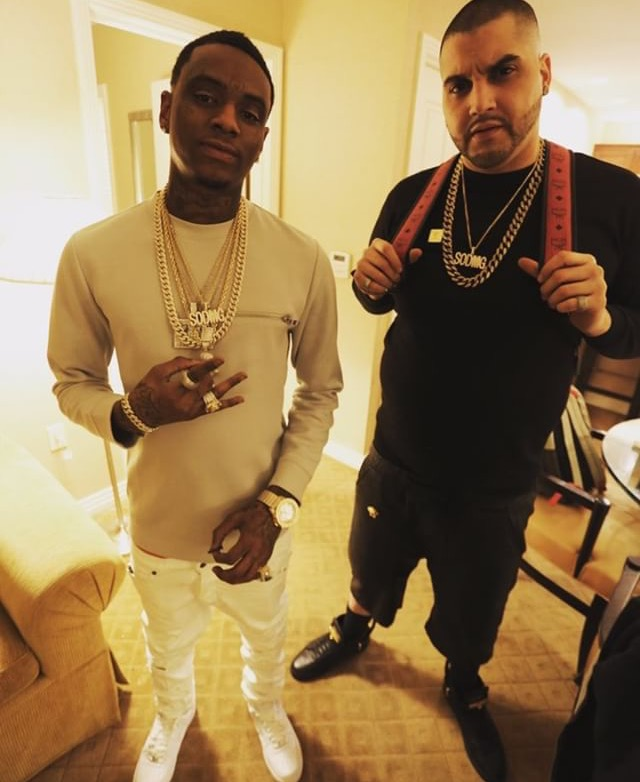 Soulja Boy and M2thaK